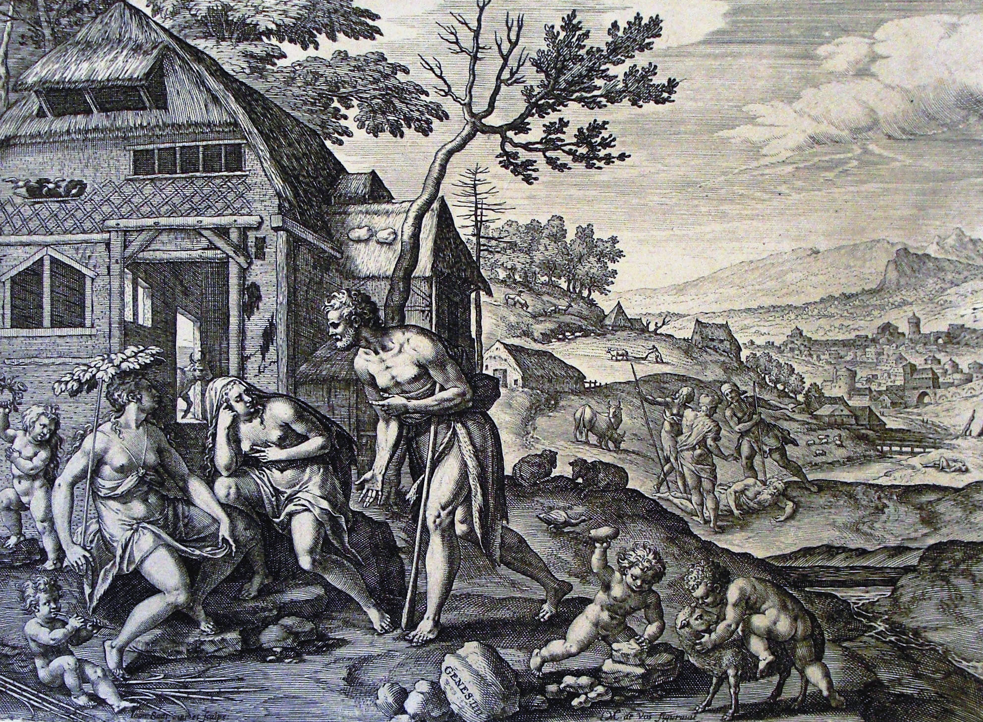 Lamech and his two wives. Genesis cap 4 v 19. De Vos